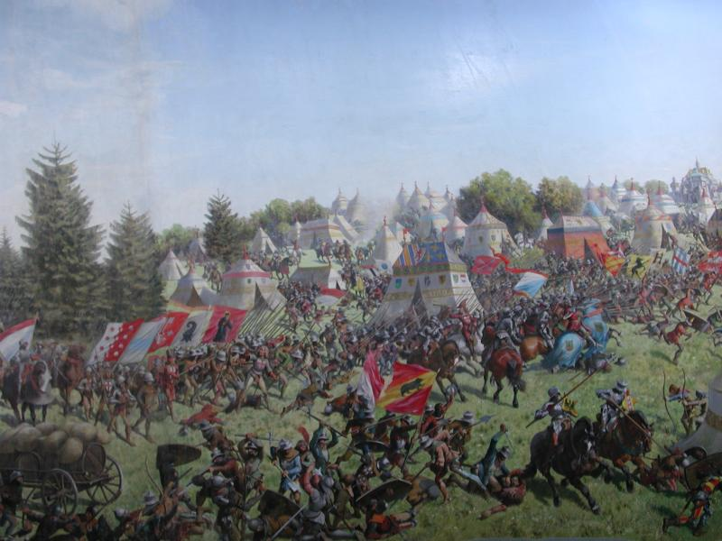 Battle of Murten (or Morat)